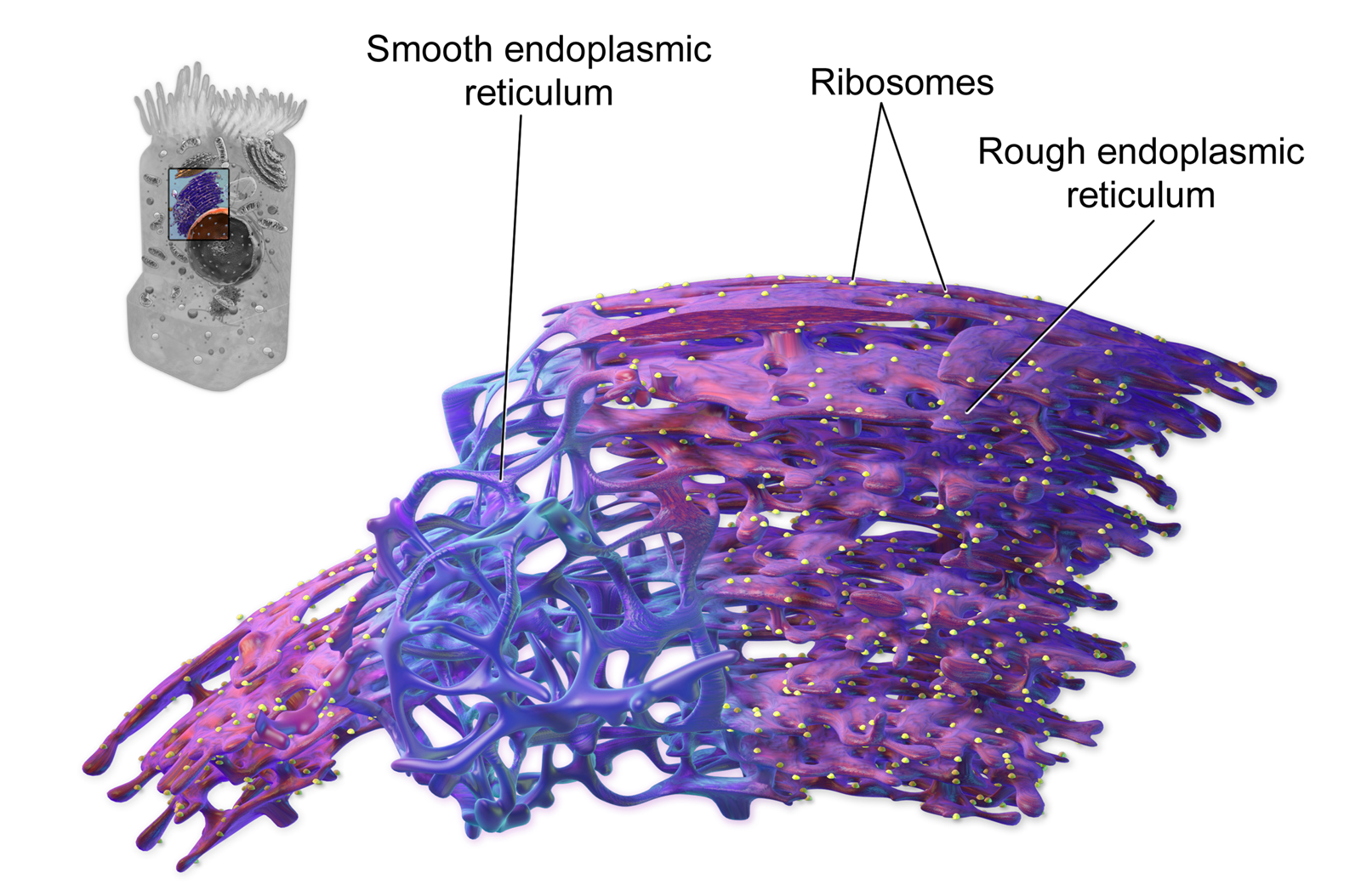 Endoplasmic Reticulum. See a full animation of this medical topic.